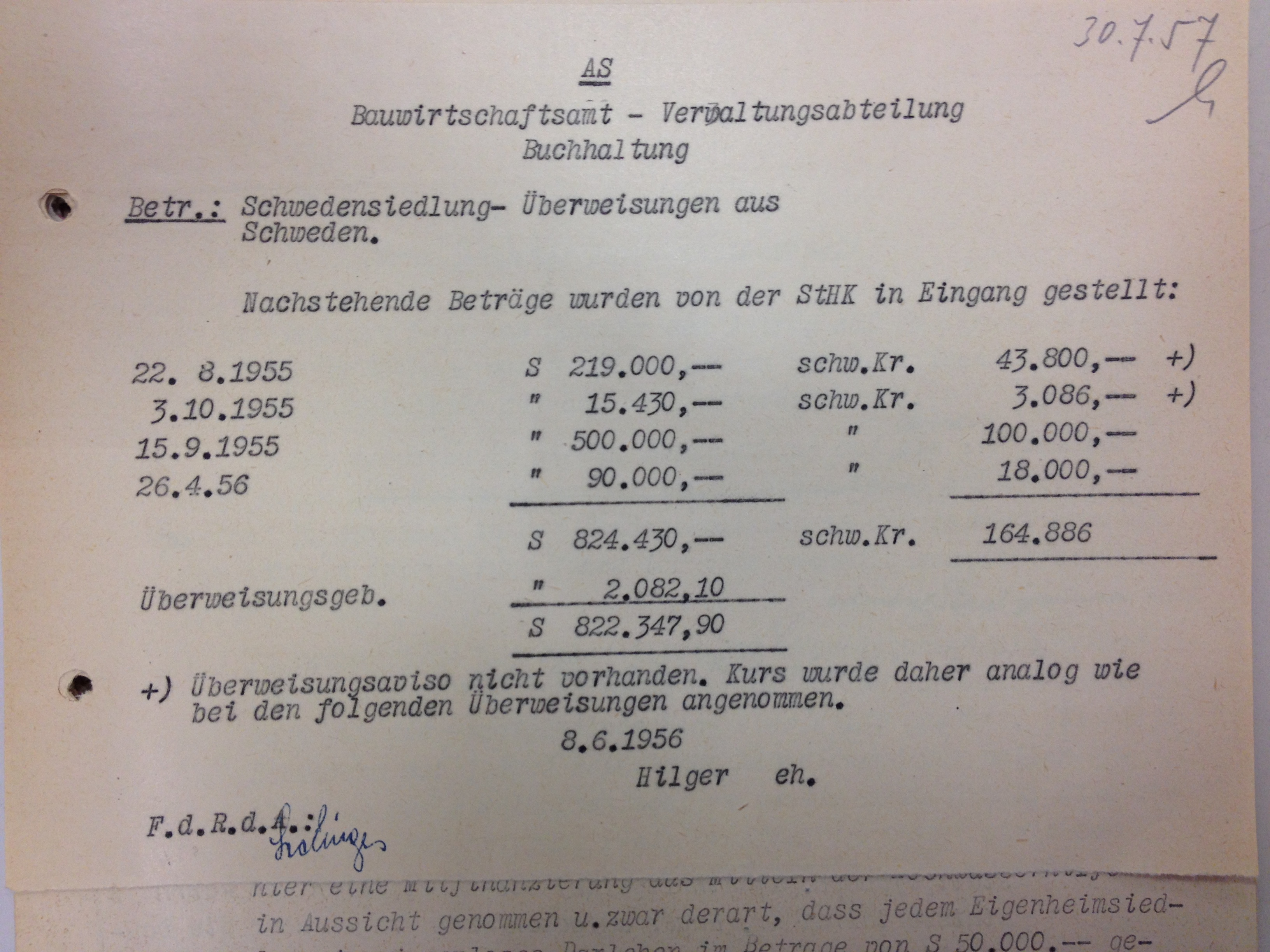 money transfers of Föreningen Rädda Barnen and Svenska Röda Korset to the town Linz/Donau between 1955-08-22 and 1956-04-26